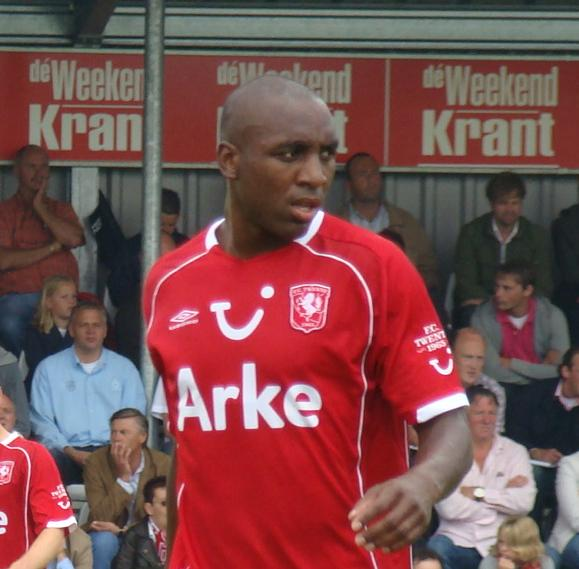 Image of the FC Twente-player Romano Denneboom